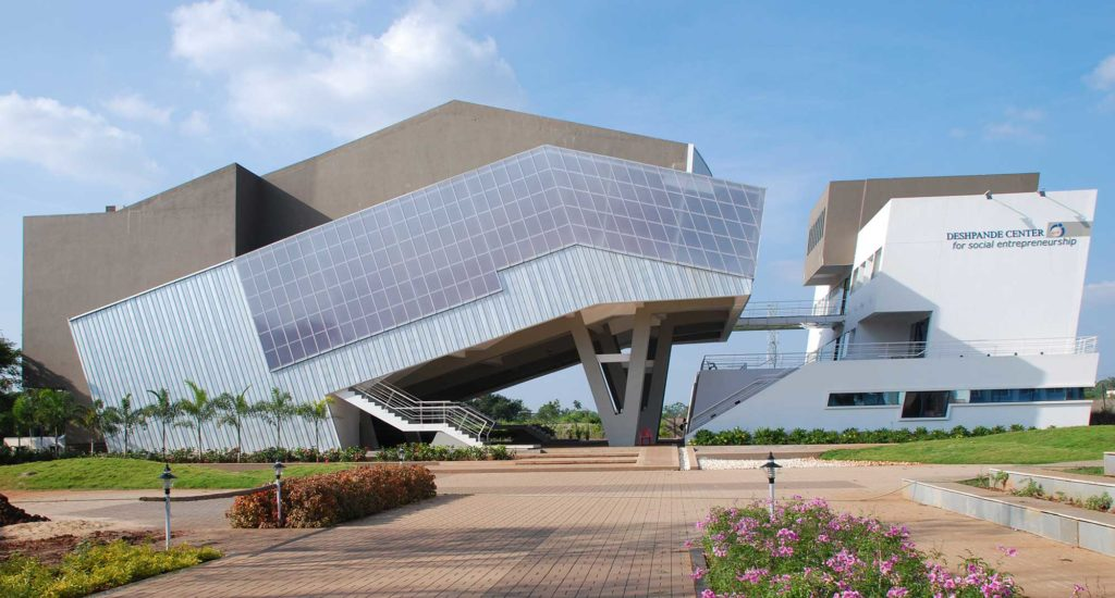 Deshpande Foundation Deshpande Center for Social Entrepreneurship Vidyanagar, Hubballi - 580 031 Karnataka, India